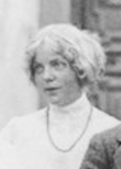 Anne Marie Telmányi at Fuglsang Manor on Lolland, about three years before her marriage to Emil Telmányi